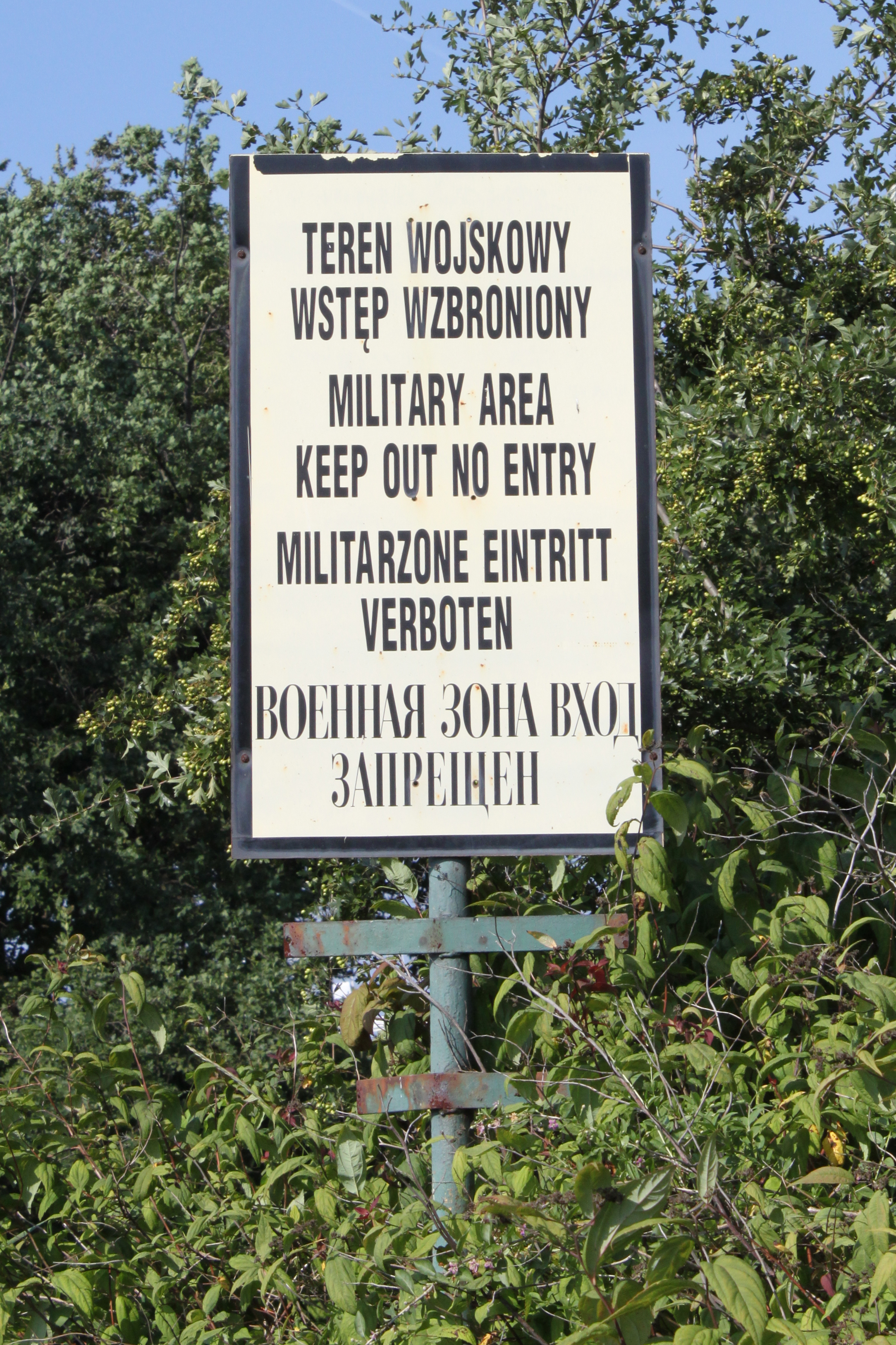 "Military Area Keep Out" sign, Westerplatte, Gdańsk, Poland